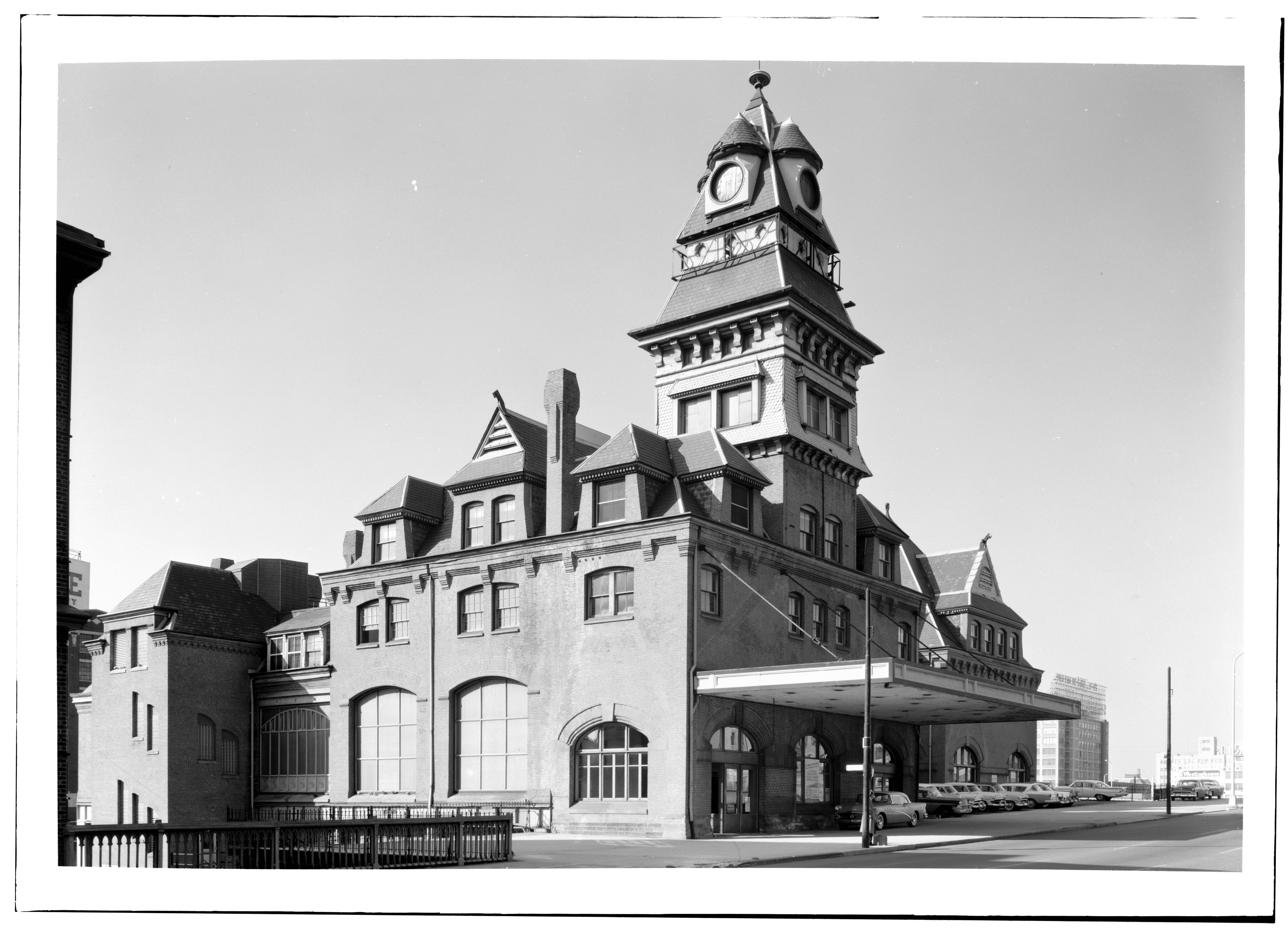 Baltimore and Ohio Railroad Passenger Station in Philadelphia, Pennsylvania, United States as seen form the northeast (completed 1888, demolished 1963). The main entrance is marked by the porch, the tracks and platforms are behind the building and pass under the roadway at right angles about where the two cars are parked on the very right. The photo was taken about one year after the B&O had discontinued all passenger service north of Baltimore; the illuminated letters on the tower spelling “B&O” have already been removed.